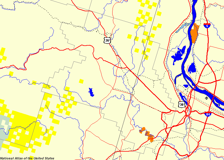 Washington County, Oregon map